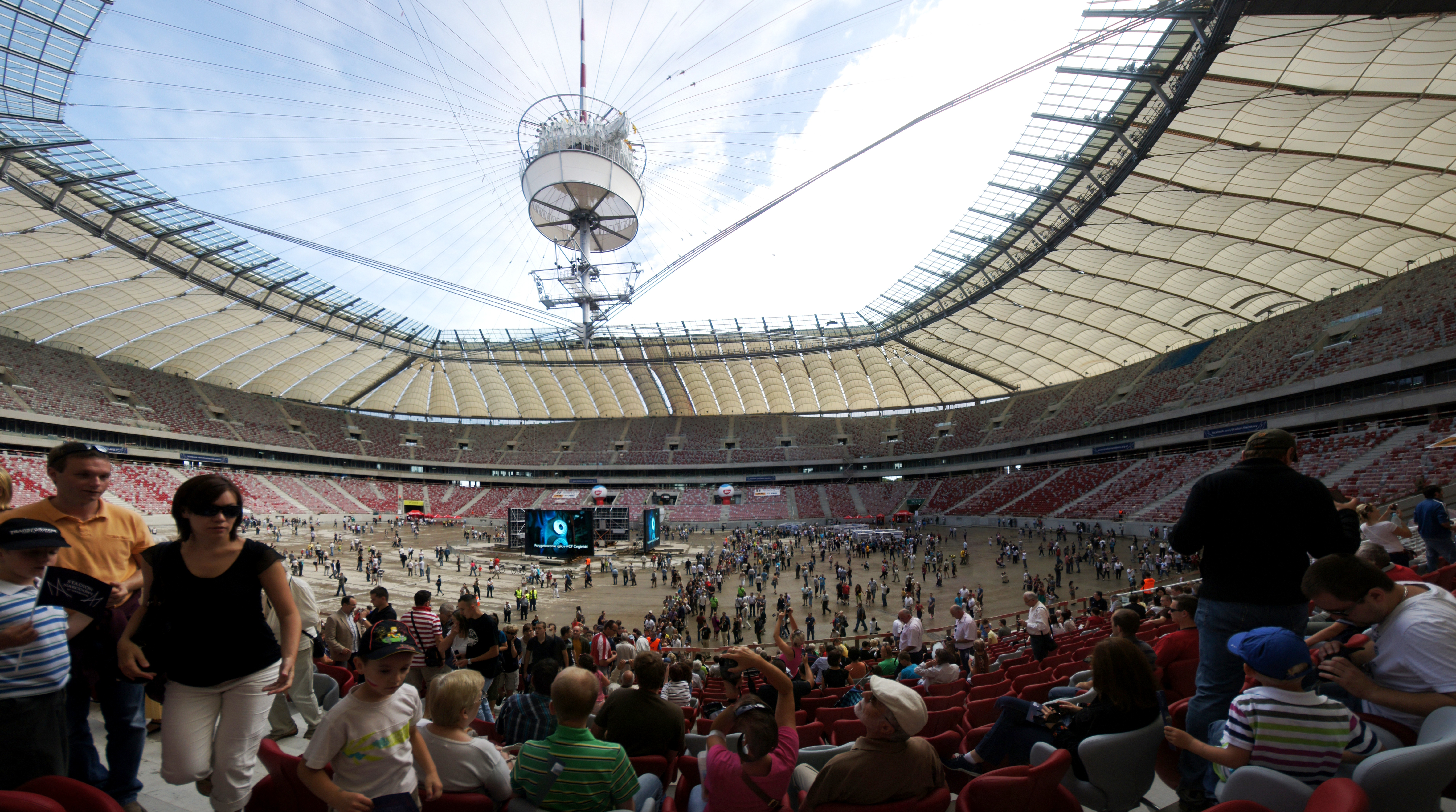 Open day at National Stadium in Warsaw